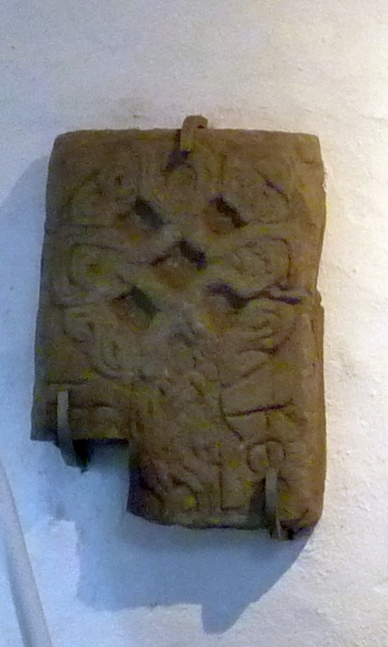 9th or 10th C. Part of a slab, possibly made to lie flat over a grave. Fragments of text may have included: ... FECIT CRUX CHRIST UT...., ie '...made the Cross of Christ for Ut...' It is from Cwrt Uchaf Farm, Port Talbot and is now in the Margam Stones Museum nr Port Talbot.